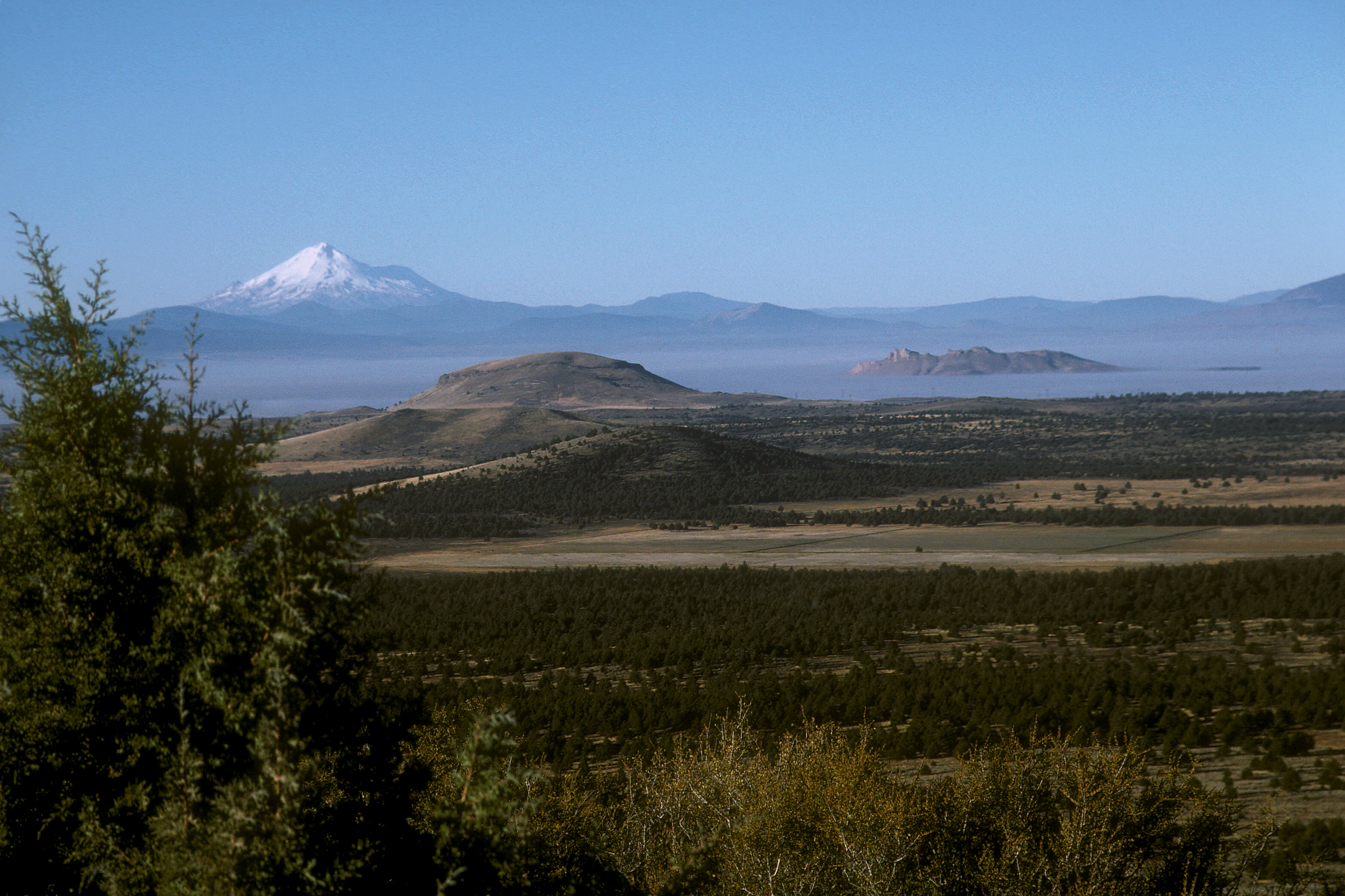 Tule Lake Basin, Modoc County, northeastern California. Mount Shasta in distance (left).